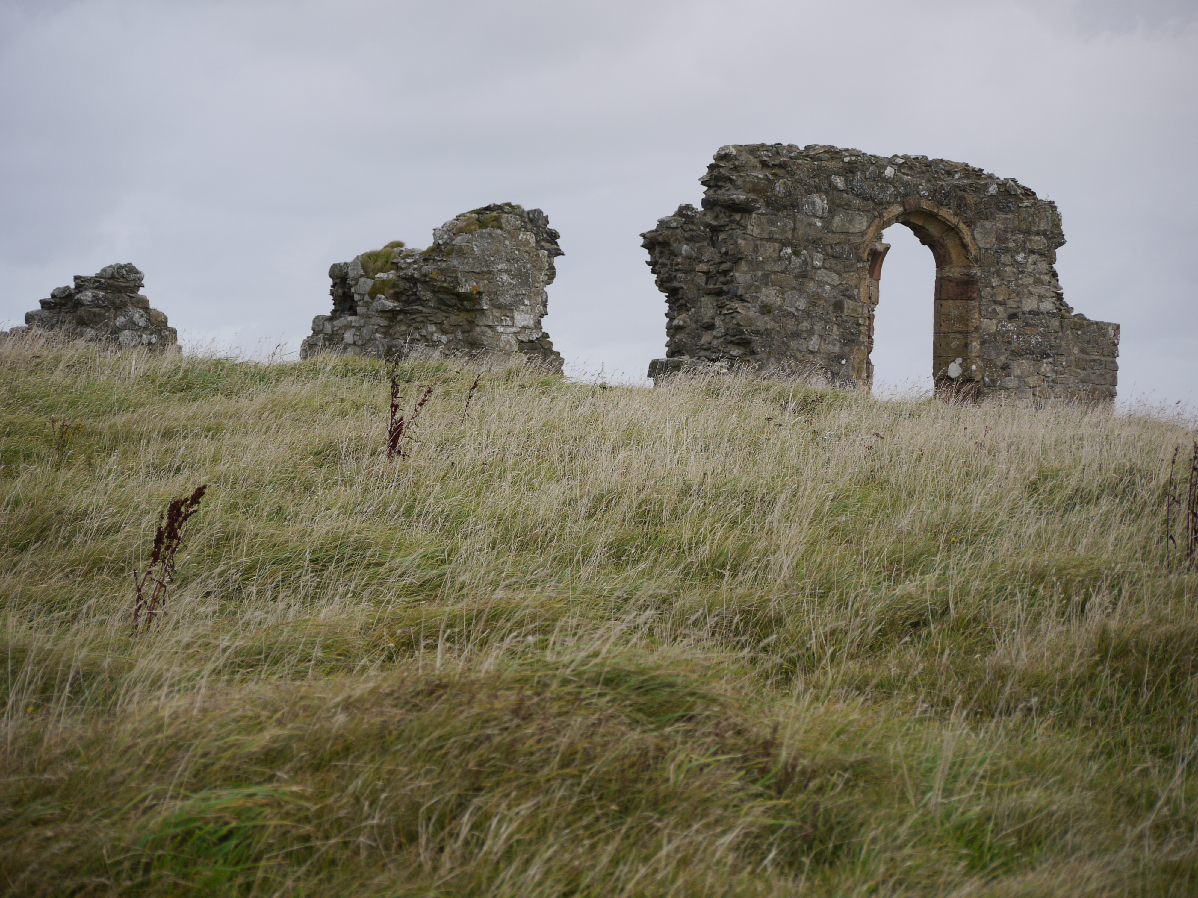 On llanddwyn Island. It was originally built in the 16th Century.